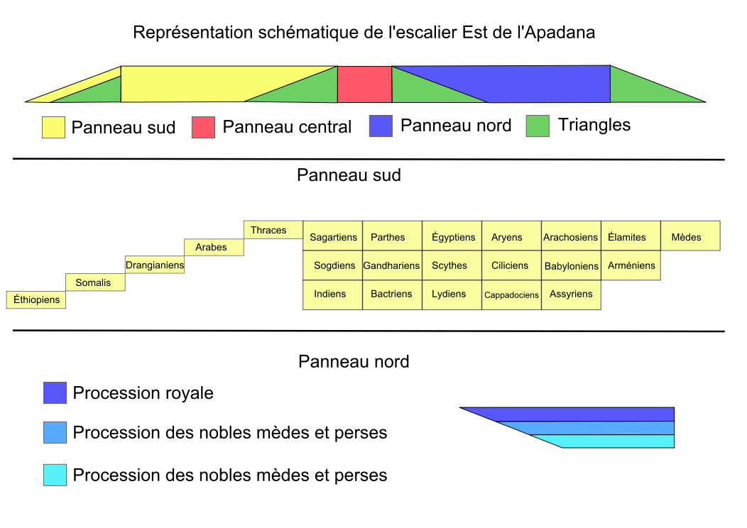 Sheme of the Eastern Stairway, Apadana palace, Persepolis Iran. french legend